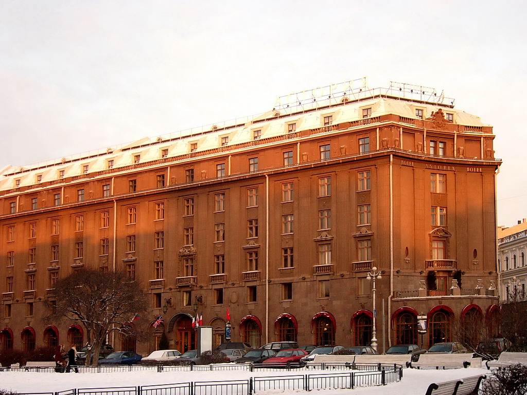 Hotel Astoria photograph by Evgeny Gerashchenko.